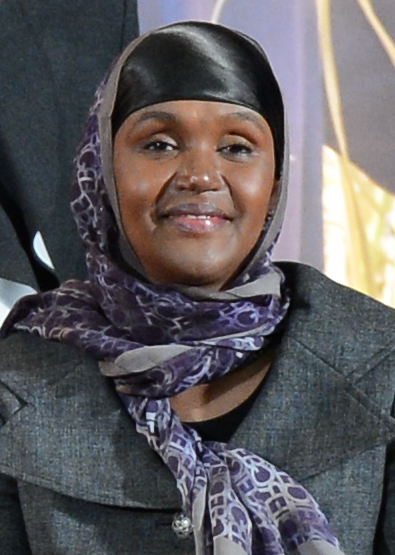 2013 International Women of Courage Awards Remarks John Kerry Secretary of State Dean Acheson Auditorium Washington, DC March 8, 2013